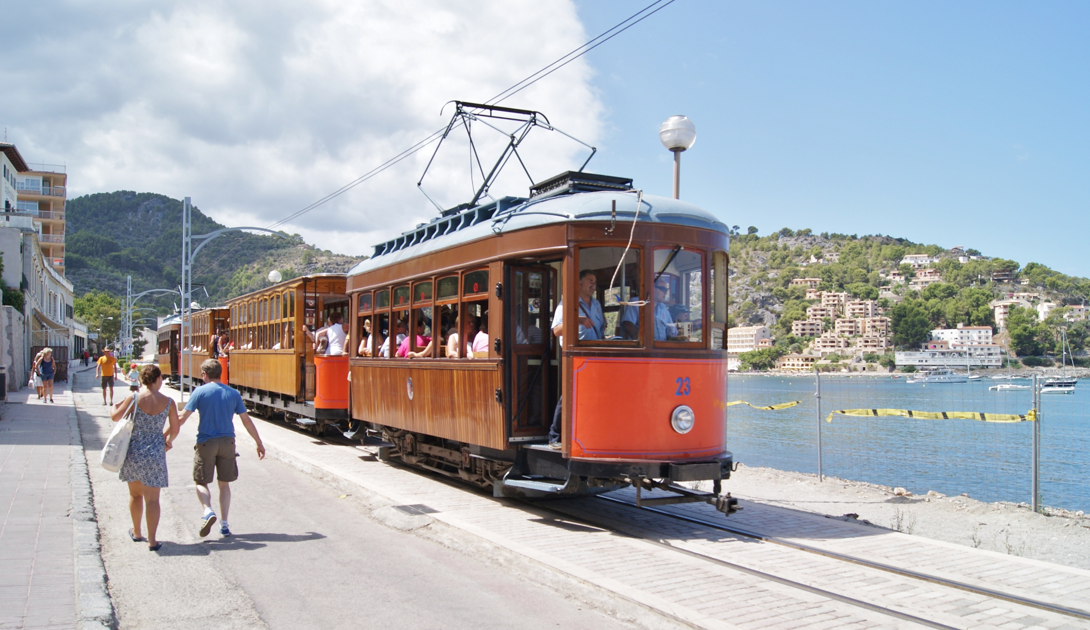 Tram 23 co-hauling a four-car tram set (M+T+T+M) entering Port de Sóller, alongside the bay, on a new track alignment in the street. Car 23 was acquired secondhand from the Lisbon tram system, as was the tram at the other end of this four-car train.